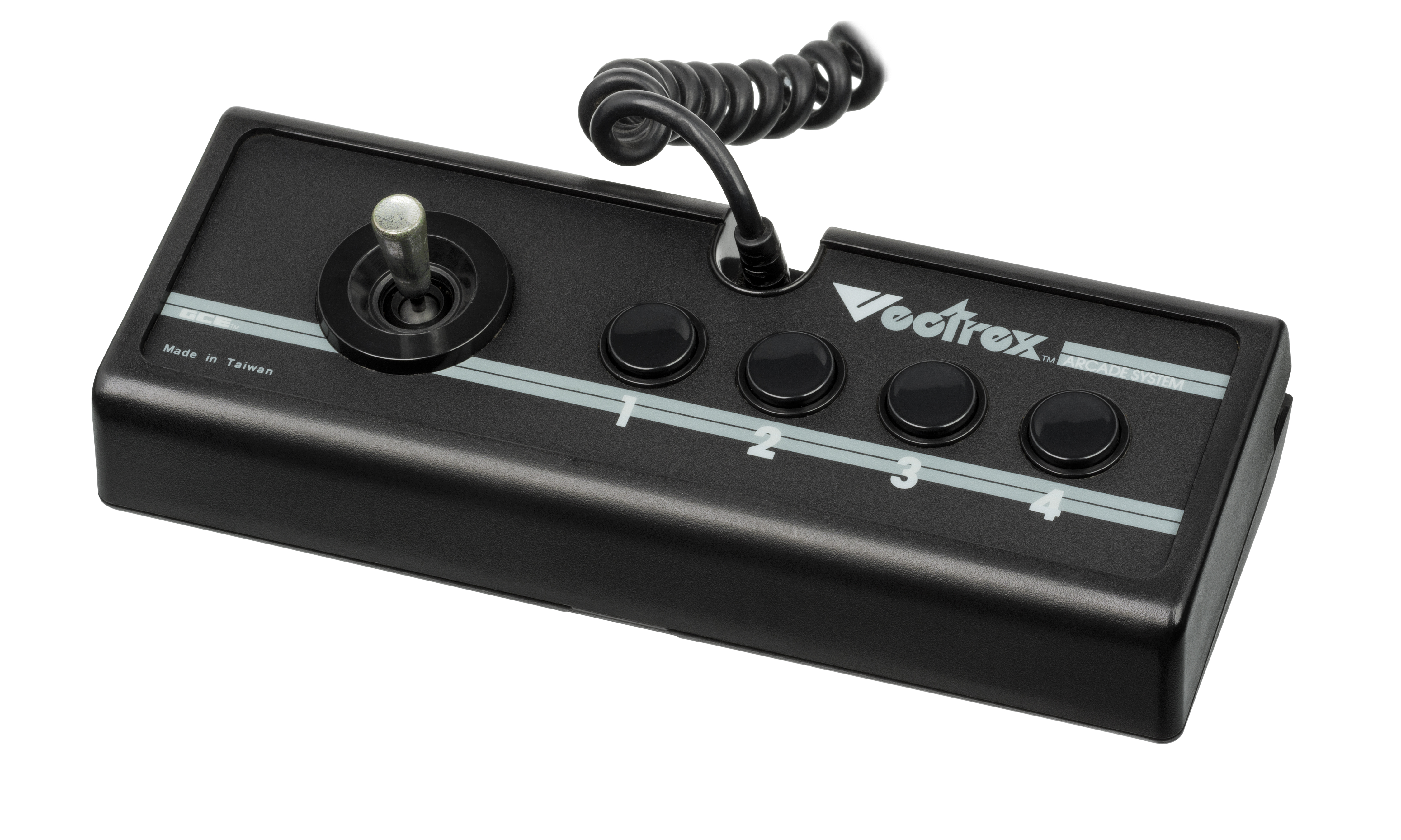 The controller for the Vectrex video game console. This controller attaches to the face of the system and tucks away when not in use. An extra controller can also be plugged into the system for two-player games.